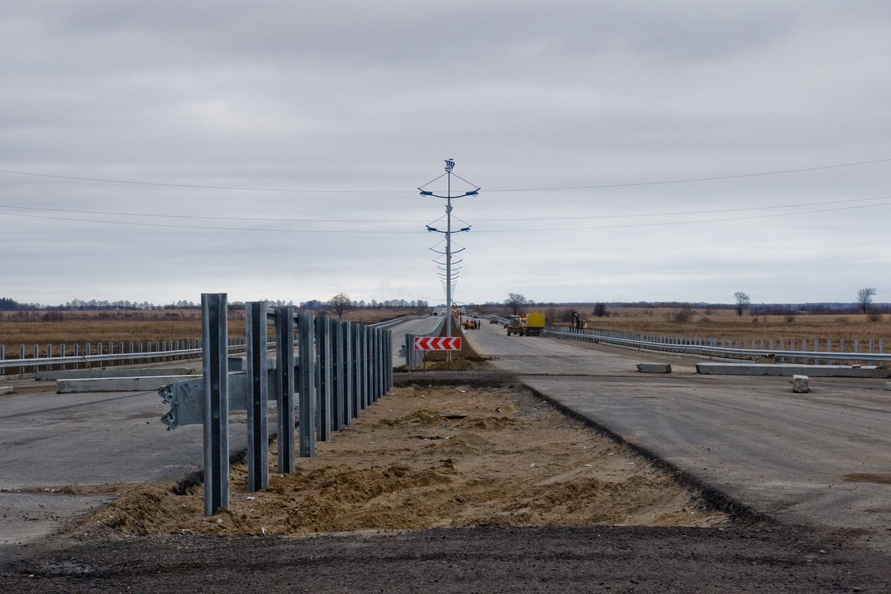 Building of road "Primorskoe kolco" in Kaliningrad region